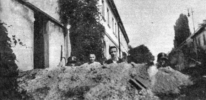 WarsawUprising: Soldiers of 206 Platoon from „Żaglowiec” Regiment on a barricade across Towiańskiego Street (now called Wieniawskiego Street) near Aleje Wojska Polskiego.